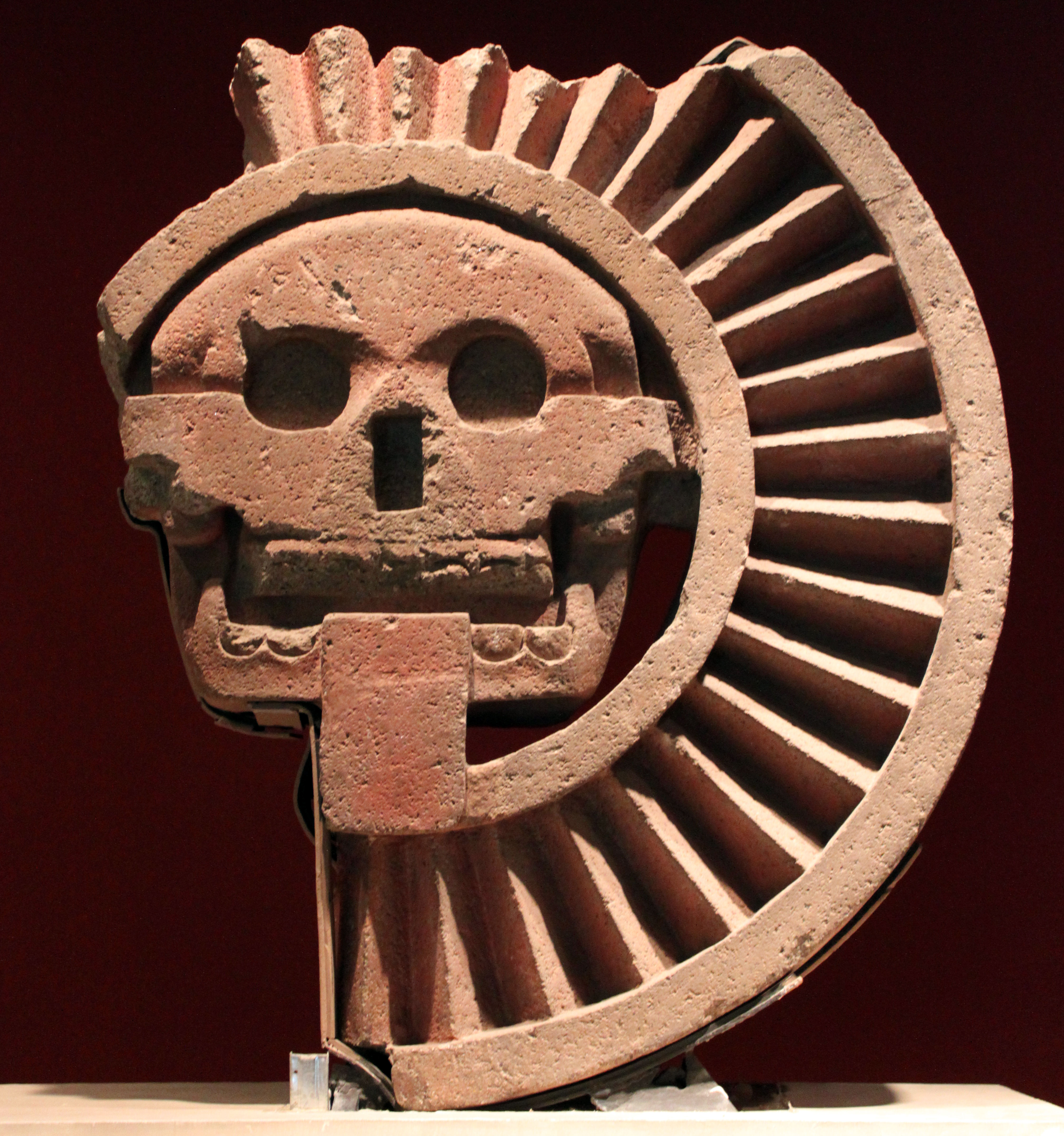 Mictlantecuhtli; aztec God of the Dead, found in Teotihuacan; shown at the National Museum of Anthropology, Mexico City